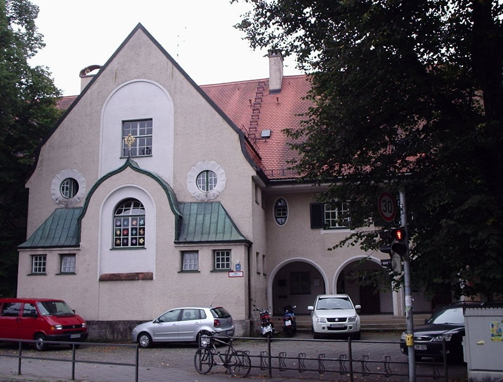 School "Grundschule Solln an der Herterichstraße" in Solln, Munich, Germany. Built in 1911 by Franz Rank.